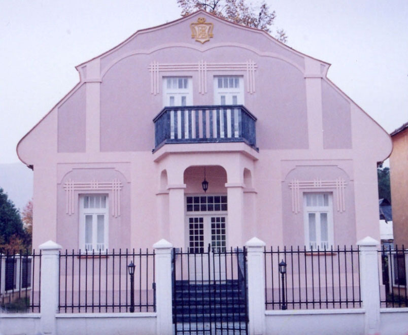 Born house of Gavro Vukovic